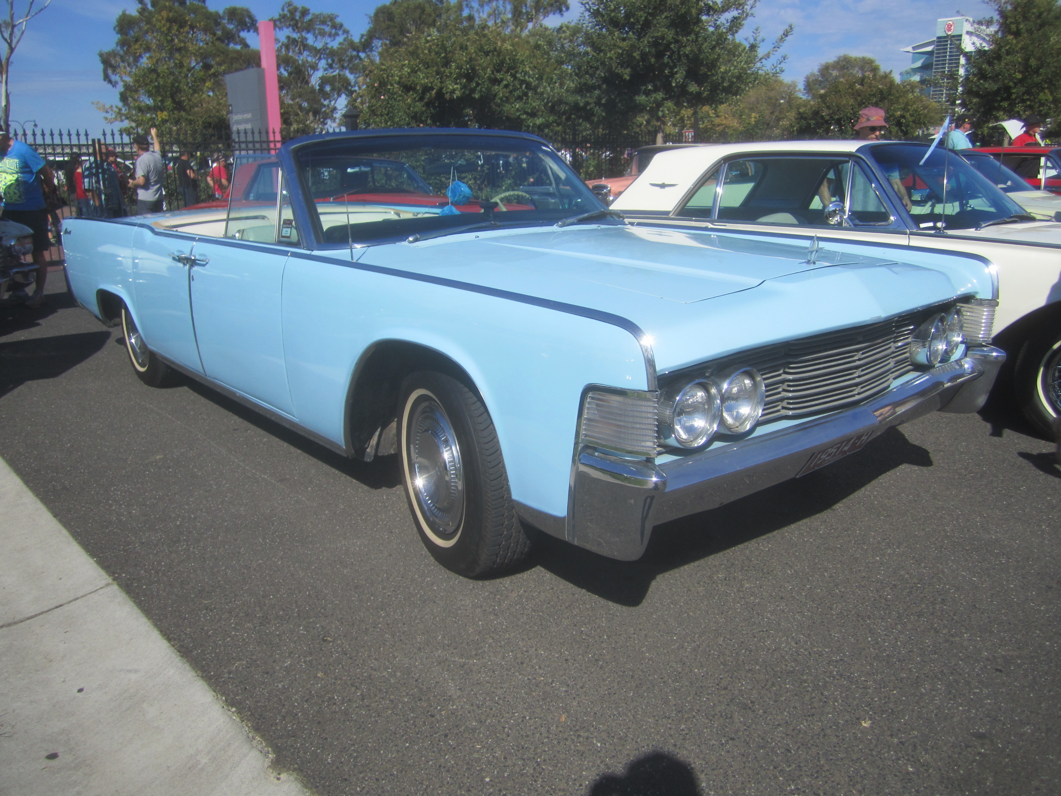 Lincoln was an upmarket division of the Ford Motor Company, the Continental was its top model, it replaced the Capri/Premier in 1939. The 4th generation Continental was built from 1961-69, a slab sided car with its trademark rear hinged rear 'suicide' doors (designed this way to make it easier to get in and out). Only available in 4 door Sedan or Convertible. The grille was flatter for 1965 and the indicators moved into the fenders. Engine; 430 cu in MEL V8